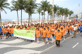 An image of a march in Brazil to mark World Osteoporosis Day.